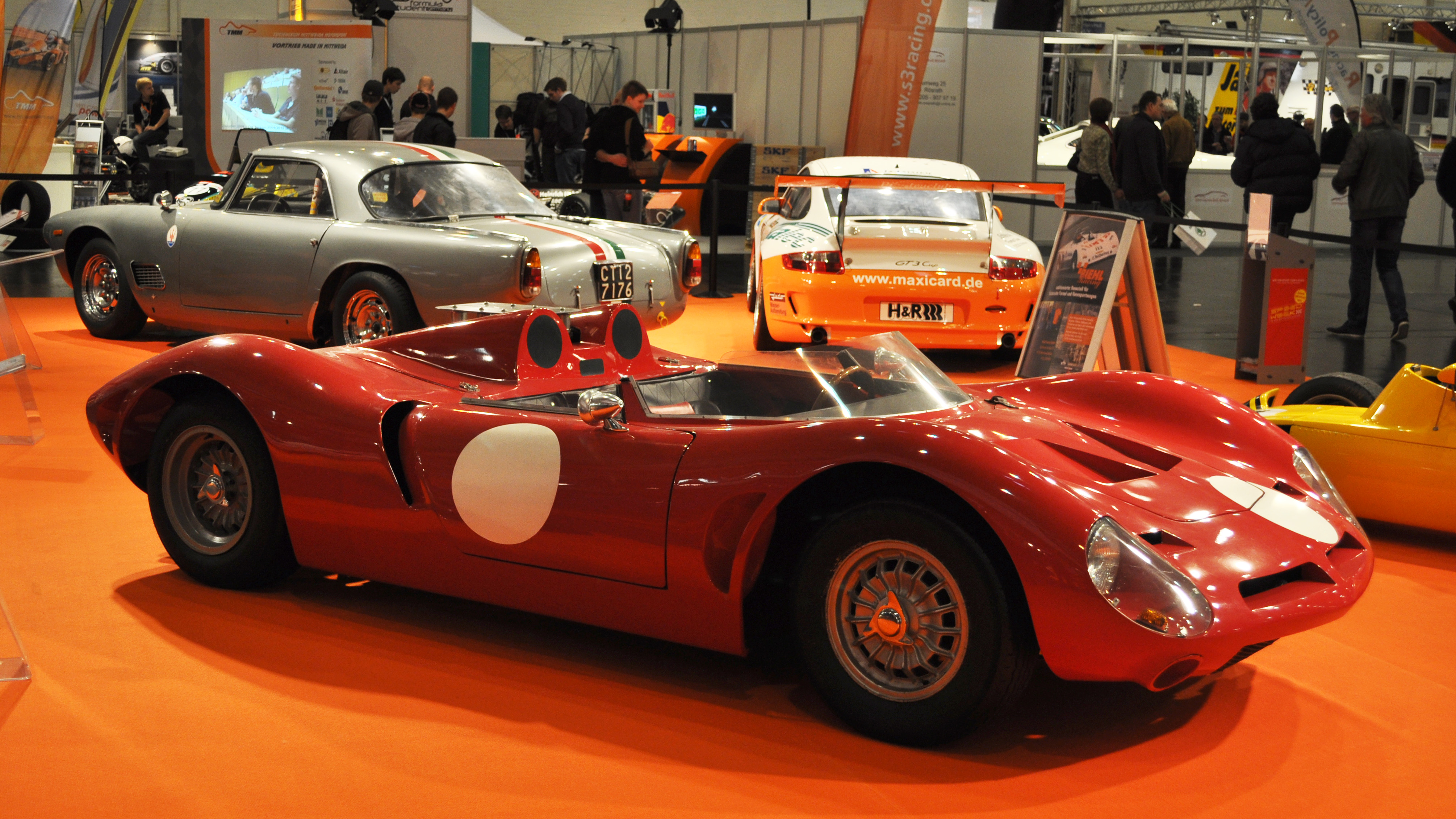 Bizzarrini P 578 Spider (1976 authorized replica of the original 1966 car) at the Essen Motor Show 2011